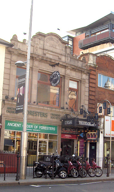 Tricycle Theatre, Kilburn High Road (September 2006)